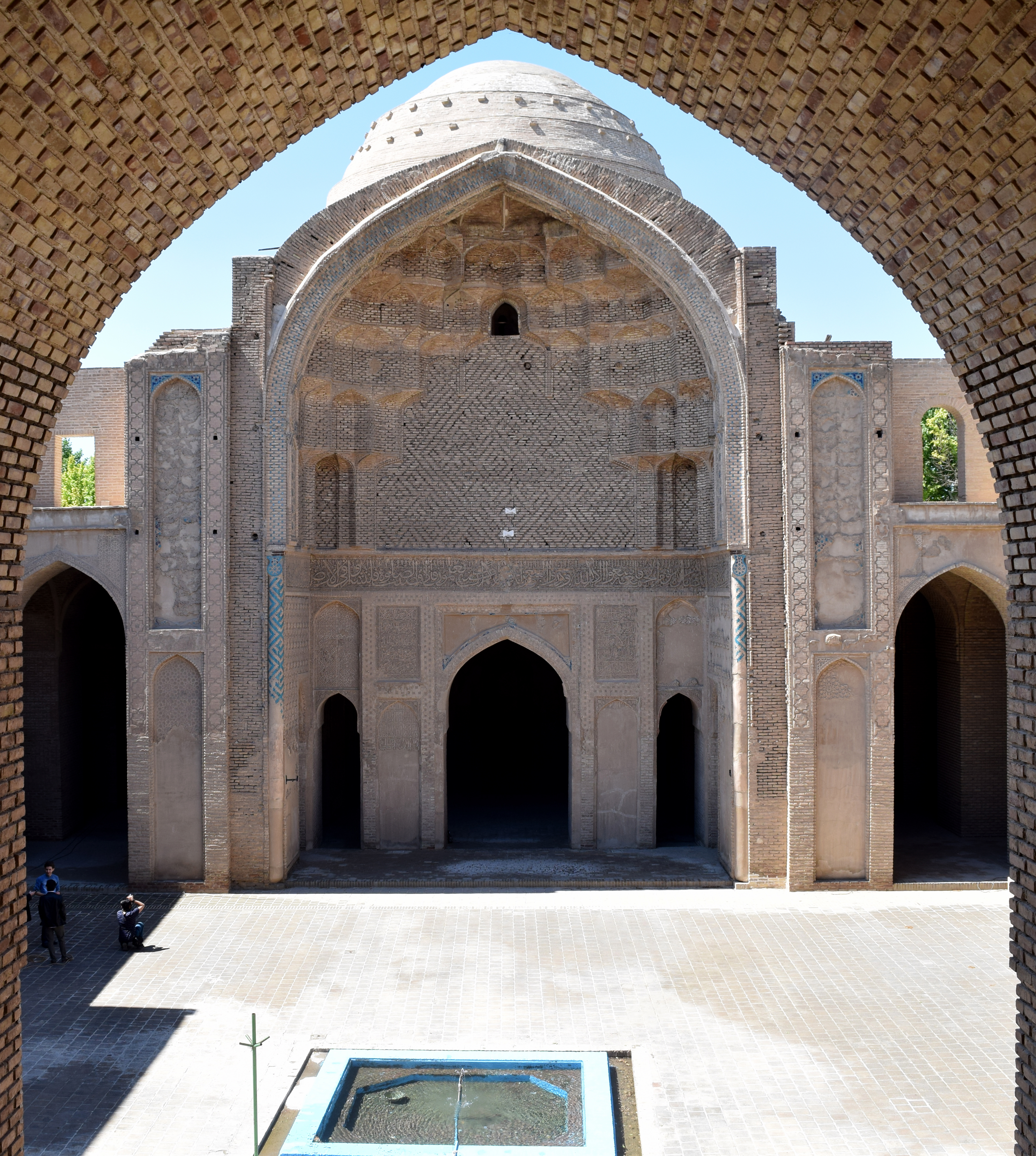 Courtyard and dome of Mosque of Varamin, picture taken from the room above the entrance.